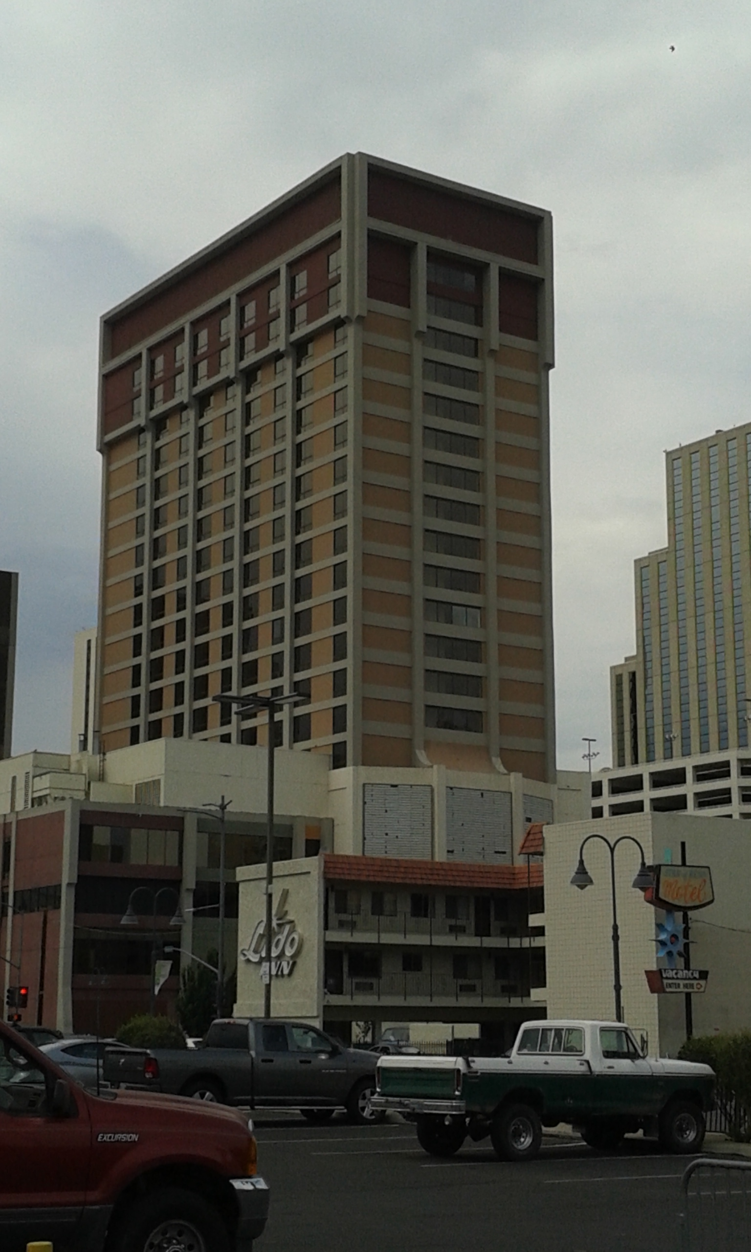 The Belvedere south tower which appears to be abandoned at time of photo.